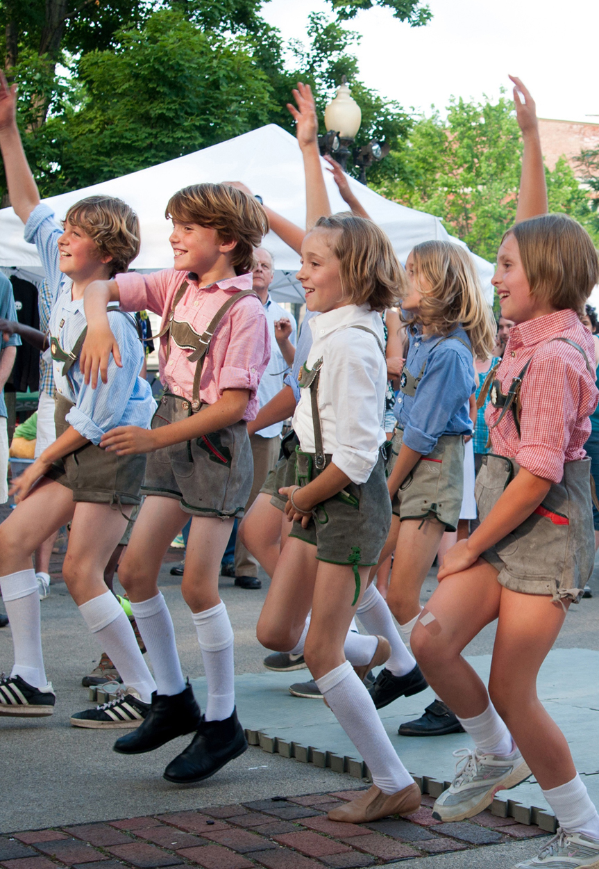 River Valley Schuhplattler Troupe dancing the Schuhplattler, Bucks County, Pennsylvania